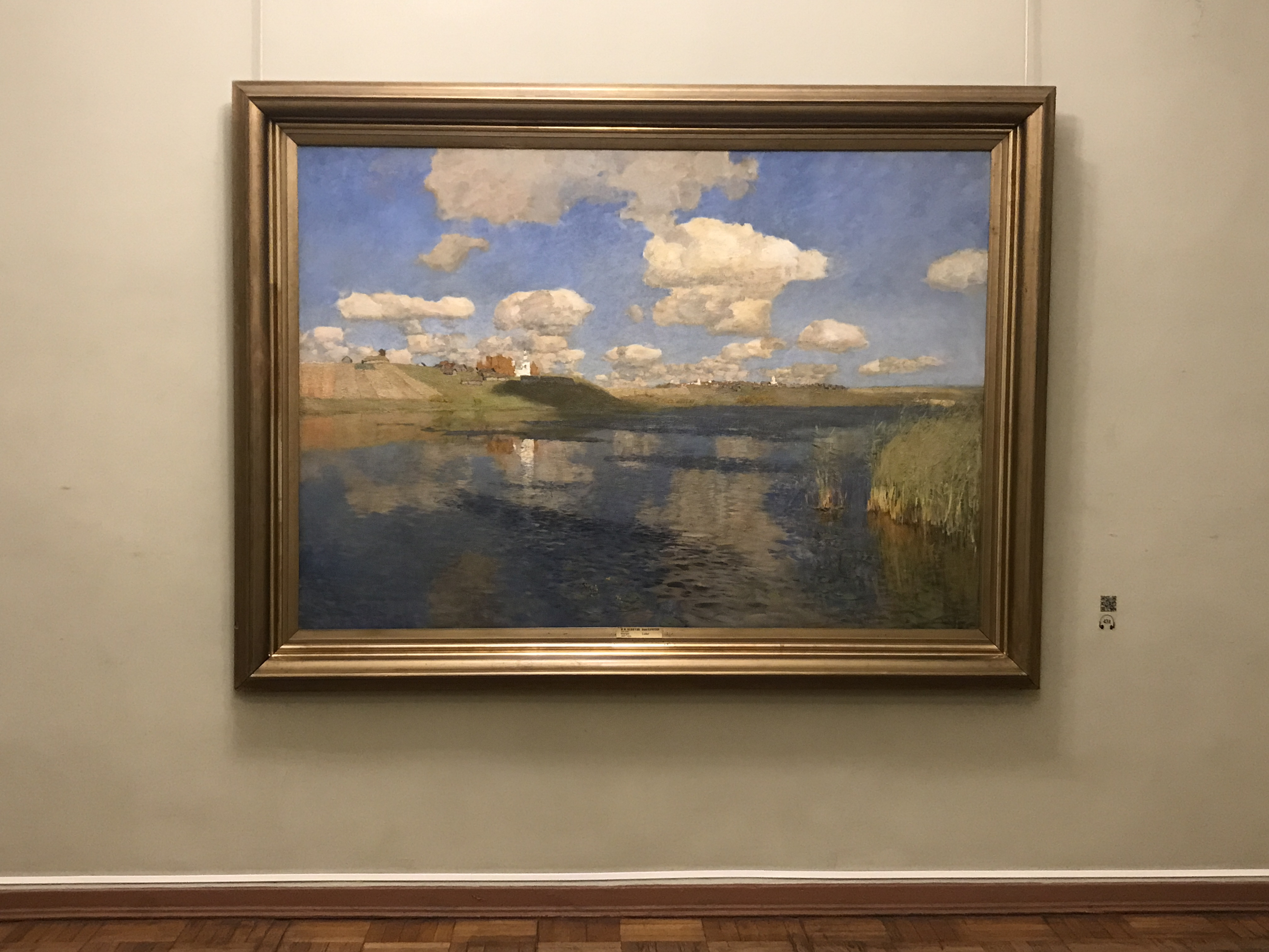 "The Lake" (painting by Isaac Levitan, 1899-1900) in the State Russian Museum